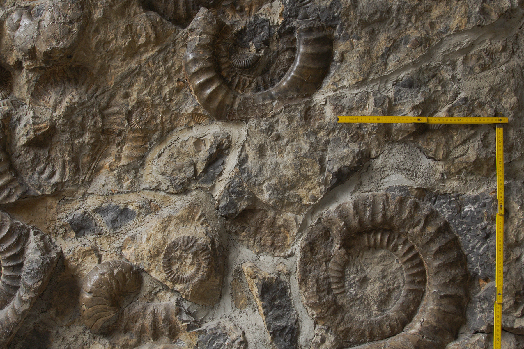 Arietenpflaster von Bodelshausen, (near Tübingen), detail (ruler 40 cm, 50 cm) of a 3,5 m to 2,4 m stone plate in the Paleontological Collection of the University of Tübingen. These Ammonites are an extinct group of marine invertebrate animals in the class Cephalopoda, here found in Early Jurassic ("Arietenkalk-Formation" Lias alpha3, age less than 200 million years (Ma)). The stone plate has fossils up to 70 cm. The fossile on the left is a marine mollusc of the subclass nautiloidea, of which there are still living species. The accumulation of Ammonites is a natural result of flows in a flat marine sea.